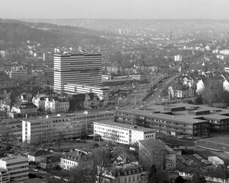 Title: Bonn Extra information: Rechts Bundeskanzleramt, Reuterbrücke, Hochhaus "Bonn-Center" Factual corrections and alternative descriptions are encouraged separately from the original description. Additionally errors can be reported at this page to inform the Bundesarchiv. Original historic description: Bonn: Landesvertretung Schleswig-Holstein in der Kurt-Schumacher-Straße